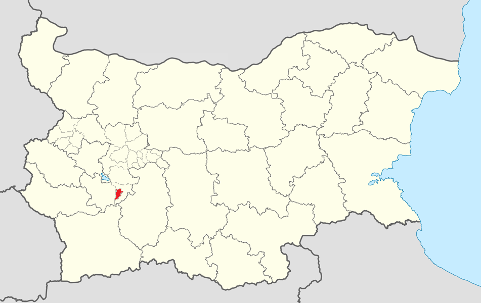 Location map of Dolna Banya Municipality within Bulgaria and Sofia province